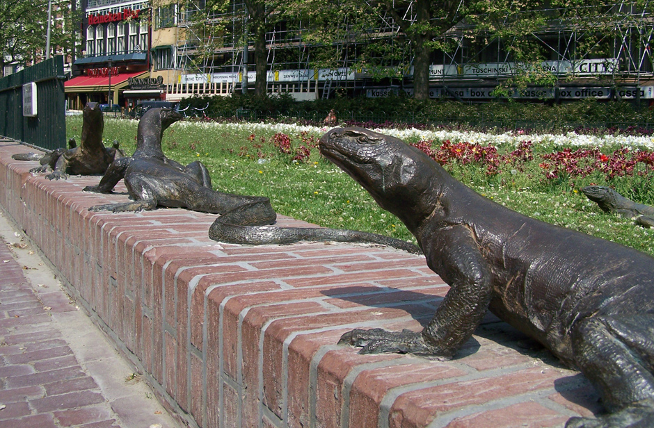 40 (or 45?) bronz lizards at the Kleine-Gartmanplantsoen in Amsterdam. Made by Hans van Houwelingen in 1994. The work is called "Blauwe Jan" (Blue Jan) after an animal collector from the 17th century "Blaauw Jan Westerhof".